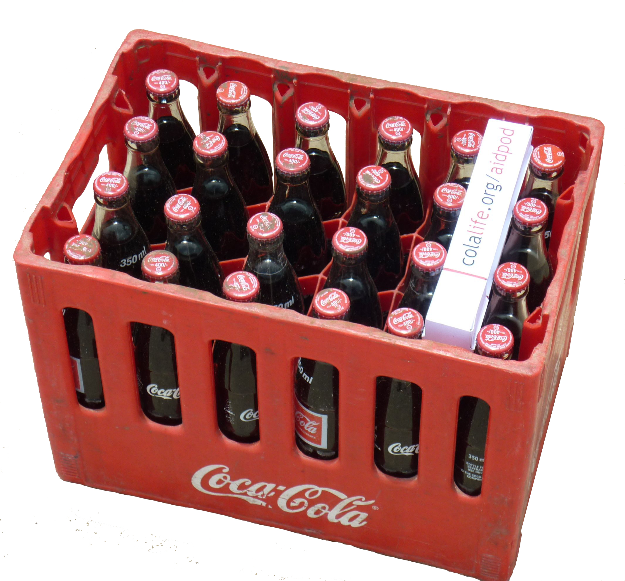 Model AidPod (Mark III) in Coca-Cola crate in Tanzania